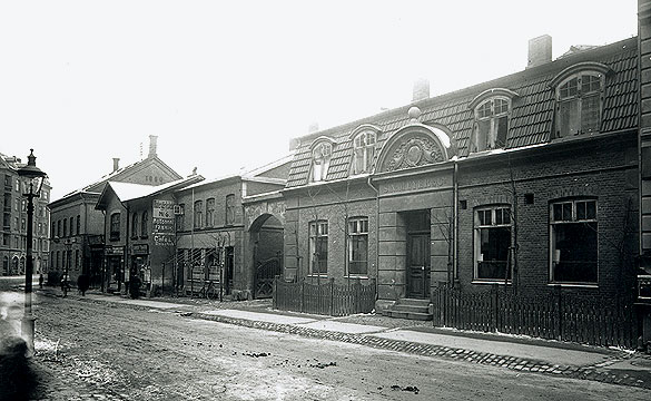 The wholesale hide company S.N. Meyer & Co. at Vesterfælledvej, Vesterbro, Copenhagen in 1916. Demolished 2000/01. Original photo in the Copenhagen Museum.